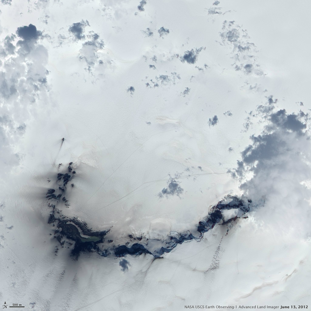 A hole in the ice above Grímsvötn Volcano, Iceland; formed during the eruption last year. Image from NASA's Advanced Land Imager aboard EO-1 on June 13, 2012. The Earth Observatory's mission is to share with the public the images, stories, and discoveries about climate and the environment that emerge from NASA research, including its satellite missions, in-the-field research, and climate models. Like us on Facebook Follow us on Twitter Add us to your circles on Google+